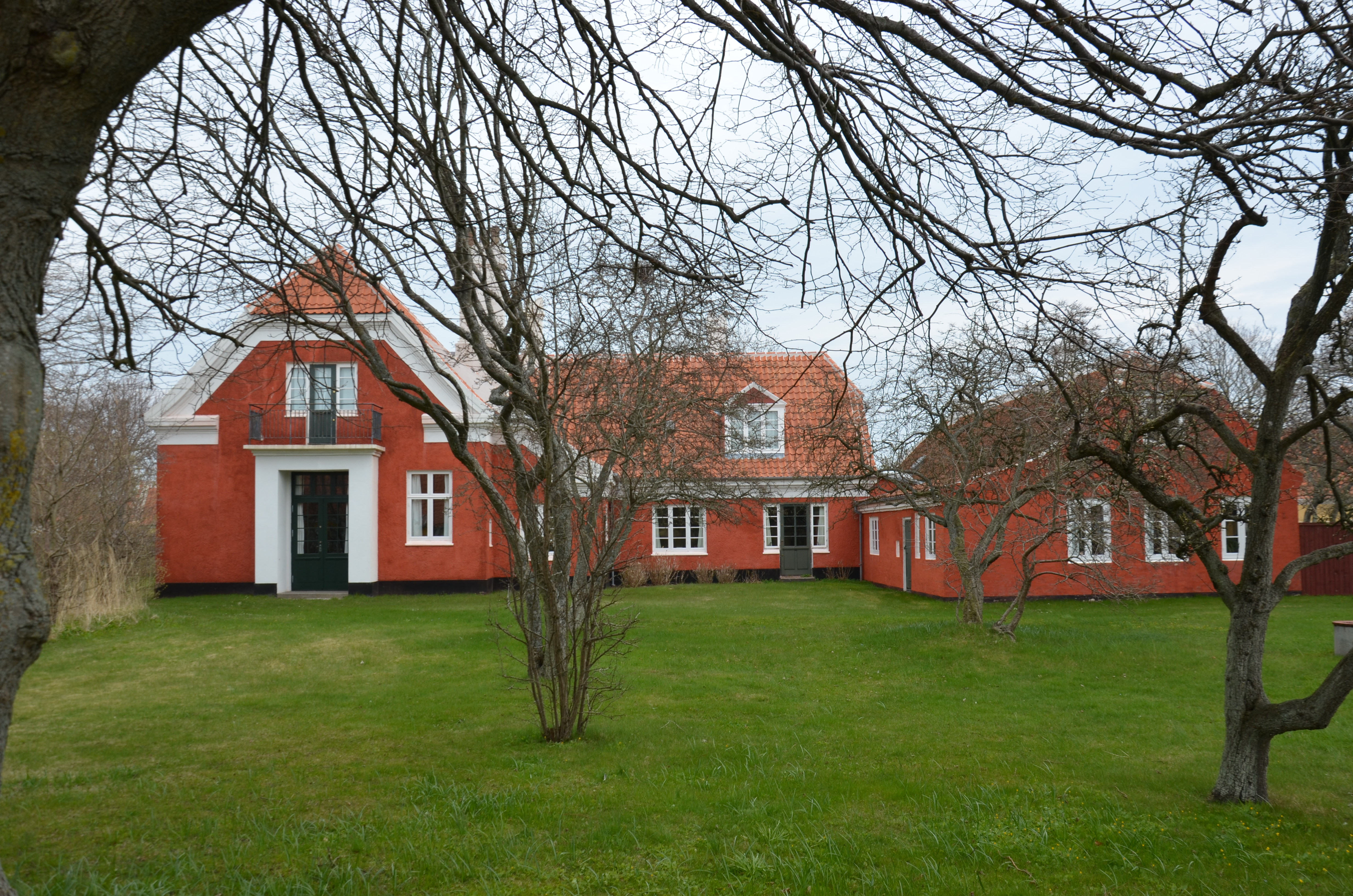 Michael og Anna Anchers hus i Skagen